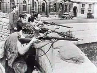 French partisans firing during the battle for Paris. Screenshot from La Liberation de Paris, September 1st, 1944. there is no known copyright for this 1944 underground propaganda work but the producer is the Le Comite de Liberation du Cinema Francais which disbanded shortly after. original movie file cand be found as public domain material at